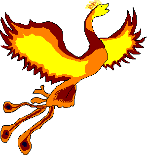 Image of a phoenix